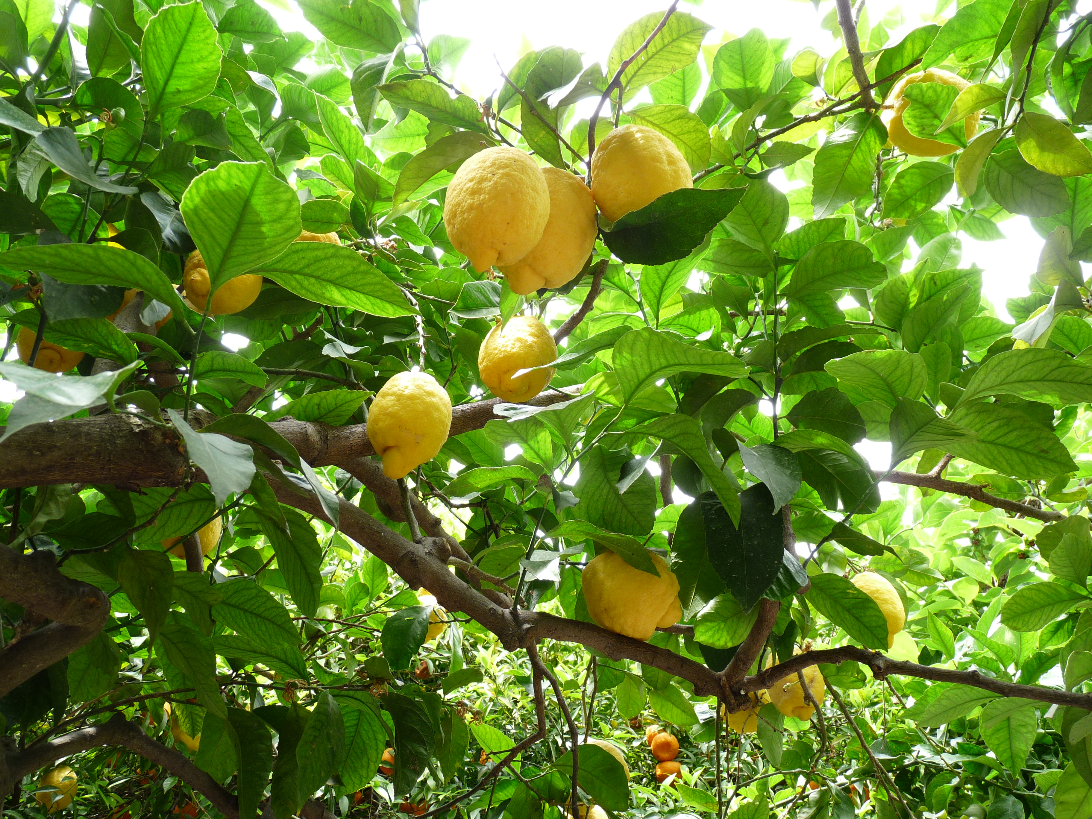 Lemons on Lipari, Aeolian Islands, Sicily, Italy